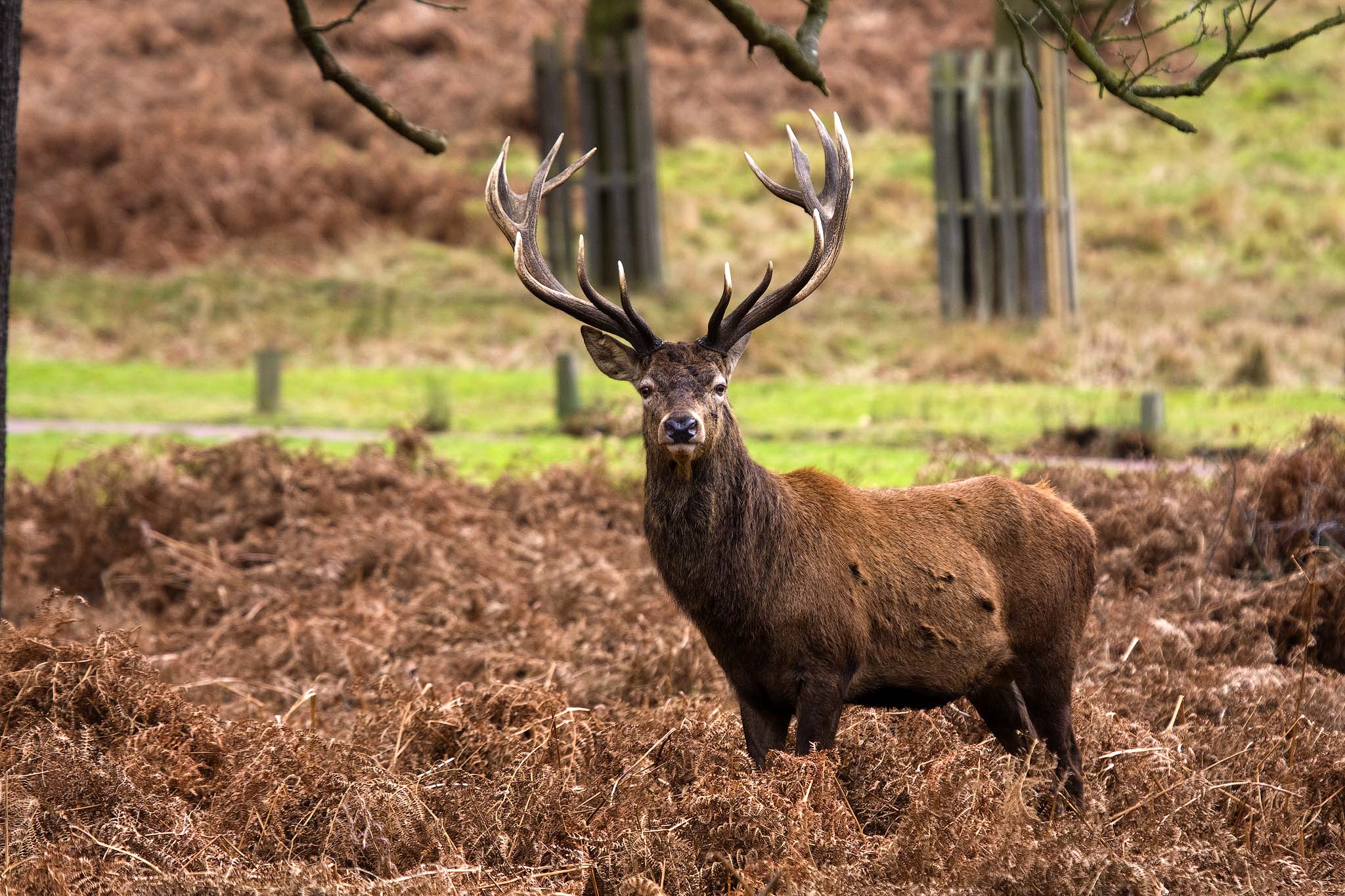 Red Deer Stag at Richmond Park, London. Canon 100-400L at around 30 feet distance.